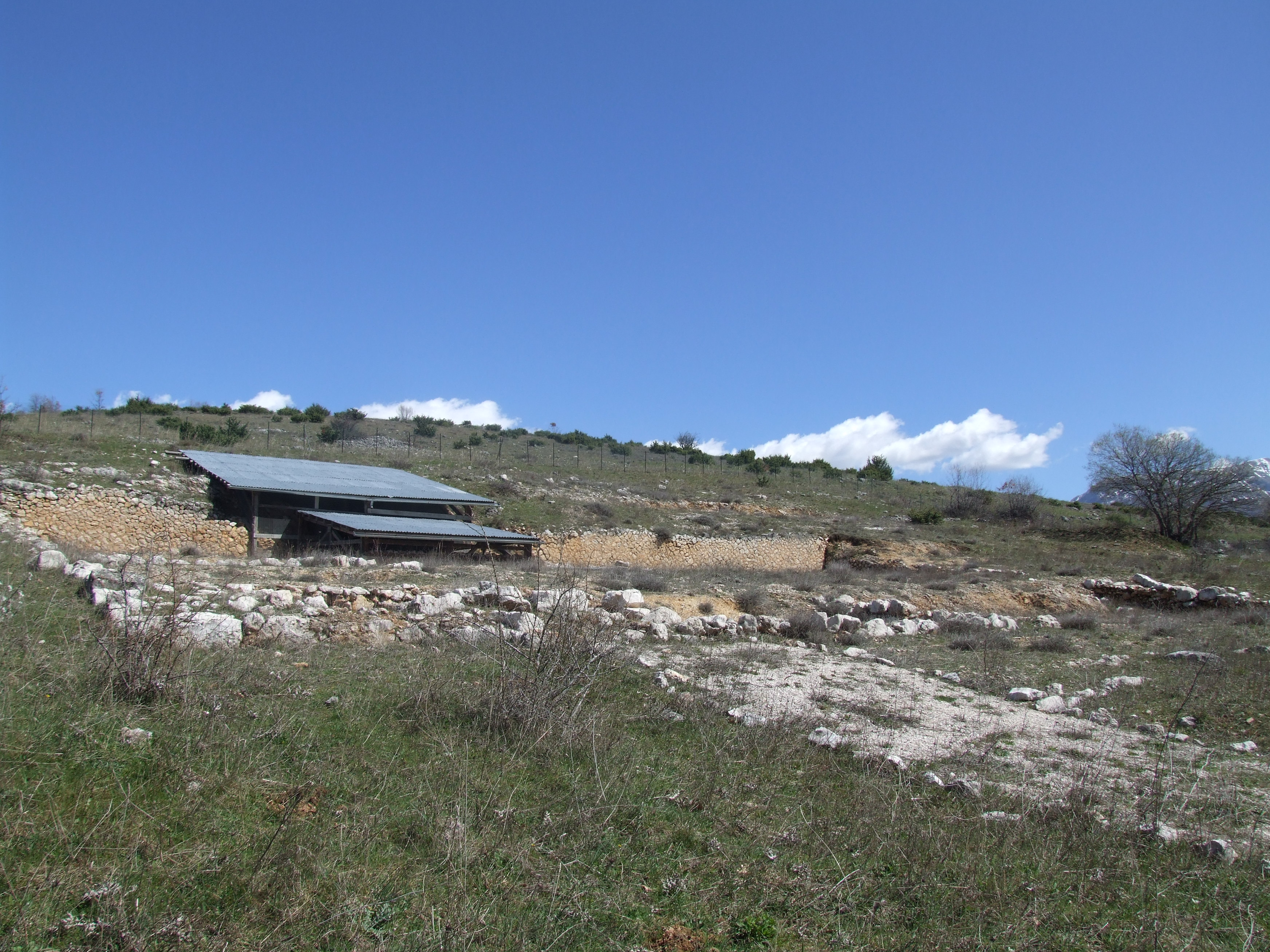 The "Fornax Calcaria" of Ocriticum